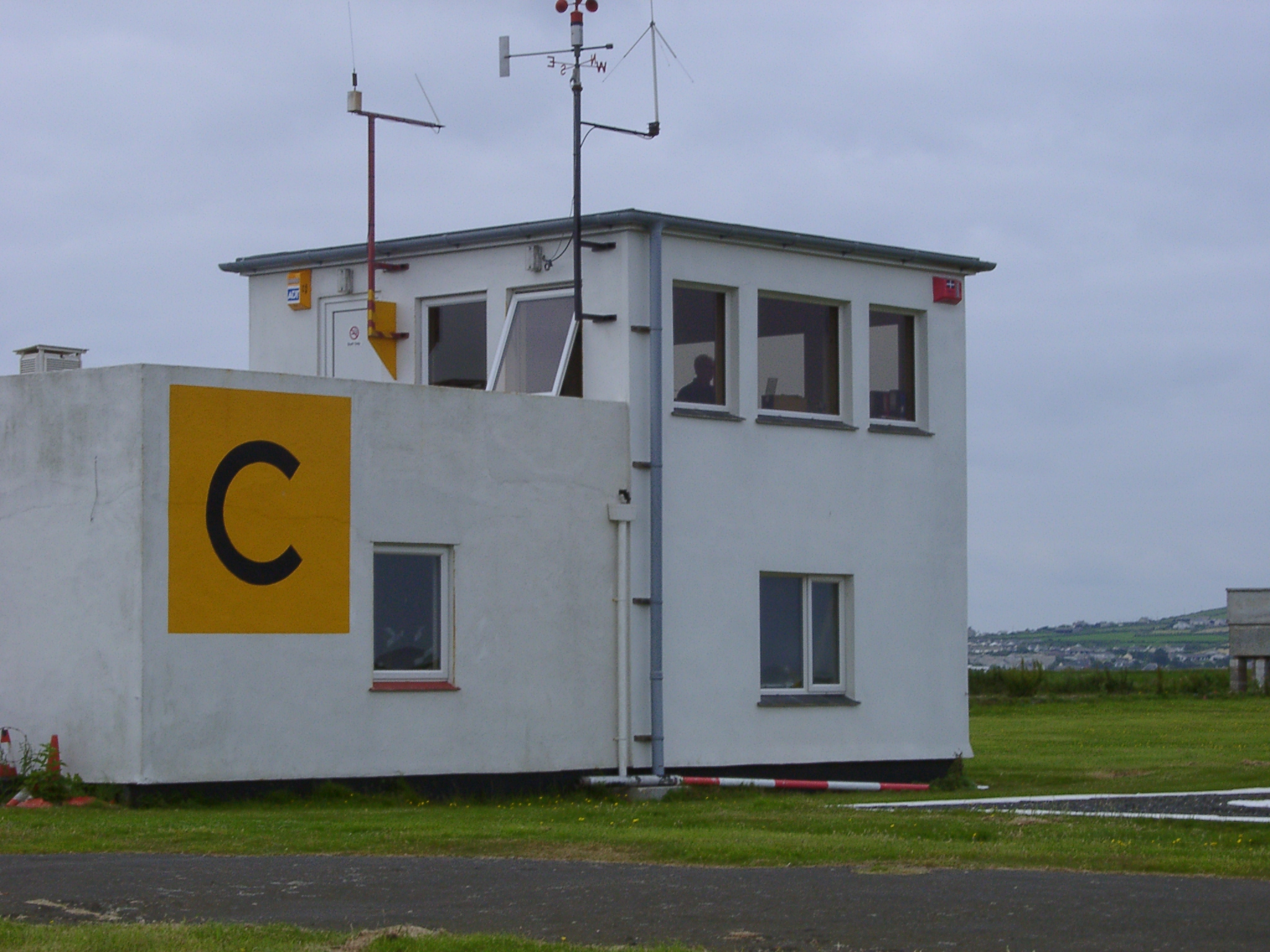 Photo of WWII Control Tower at EGTP